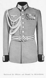 Waffenrock (dress tunic) with Feldbinde of a German Wehrmacht´s officer ca. 1939.